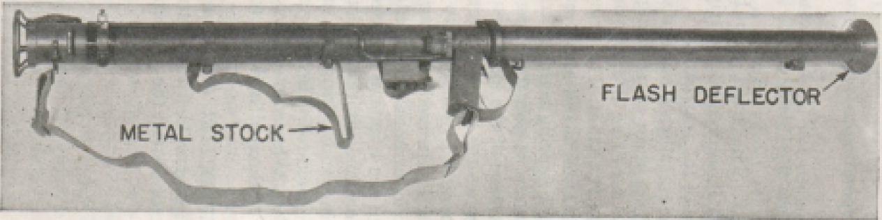 M9 Bazooka